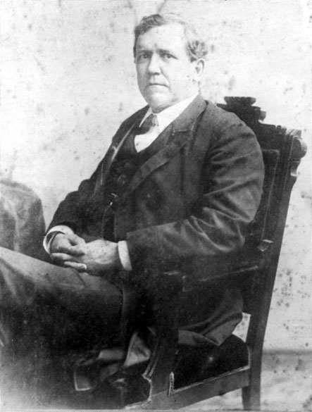 Augustus Hill Garland, d. 1899